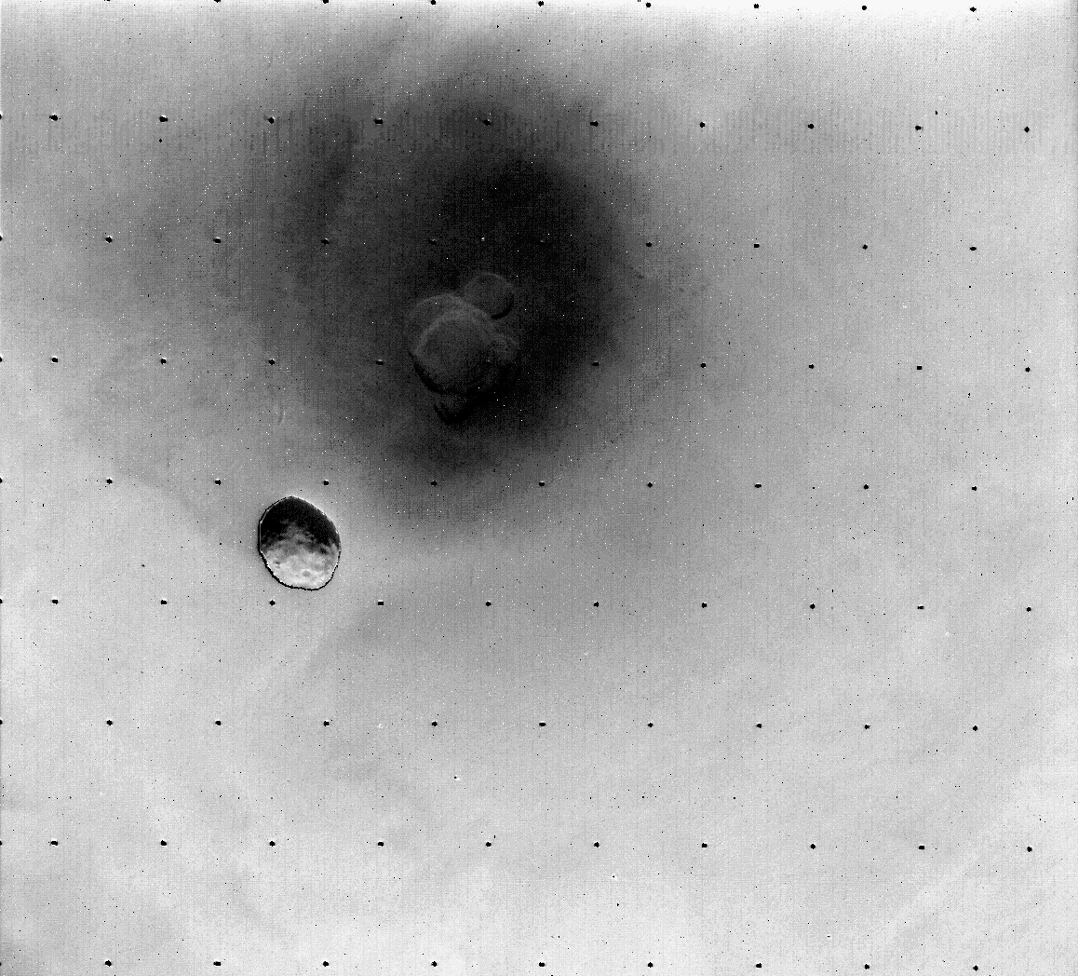 Original Caption: Viking 2 Orbiter image of Phobos orbiting over Ascraeus Mons on Mars. Phobos is about 8000 km below the spacecraft and 22 km across. Ascraeus Mons is 13,000 km away and about 300 km at its base, centered at 11 N, 104 W. North is at 11:30, and Phobos is moving from left to right relative to the surface.